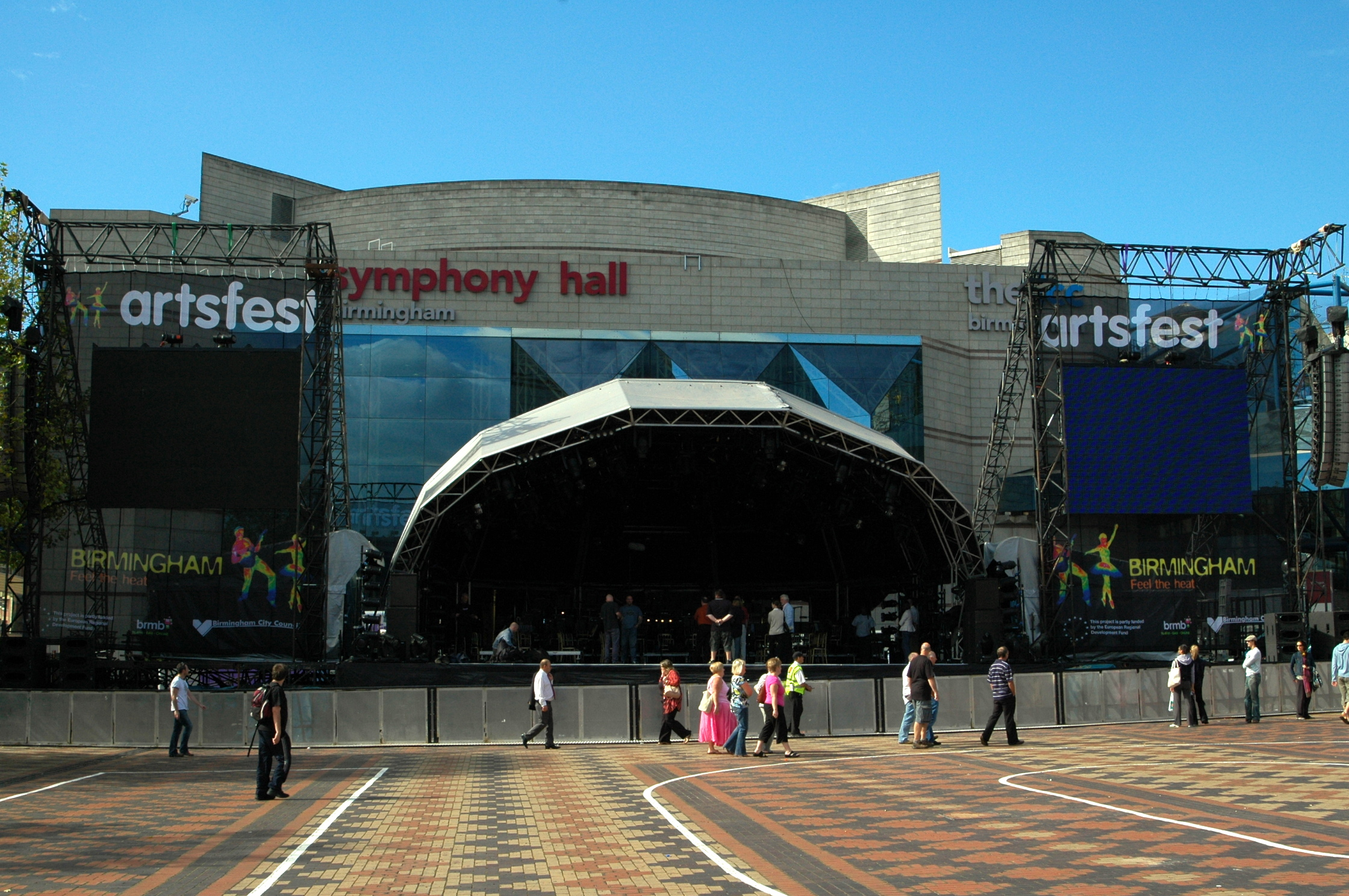 This is a stage being assembled in preparation for the 2007 ArtsFest in Centenary Square, Birmingham.